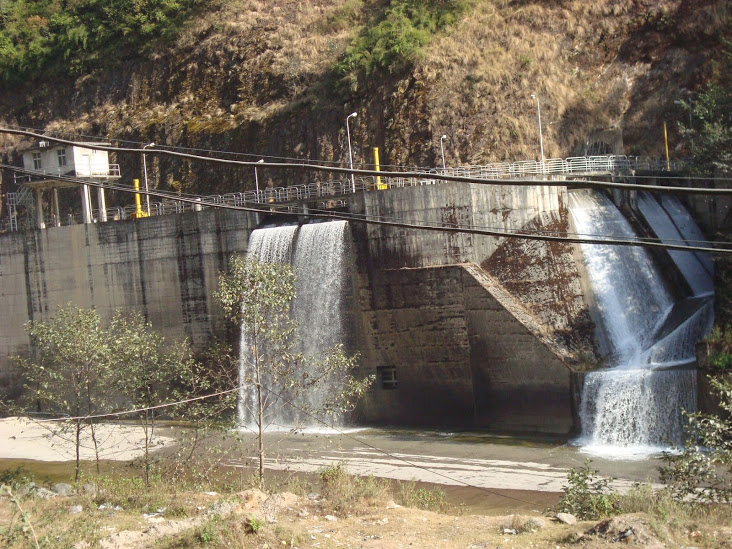 Hydropower station in Nepal नेपाली: विद्युत उत्पादन गर्ने क्षेत्र